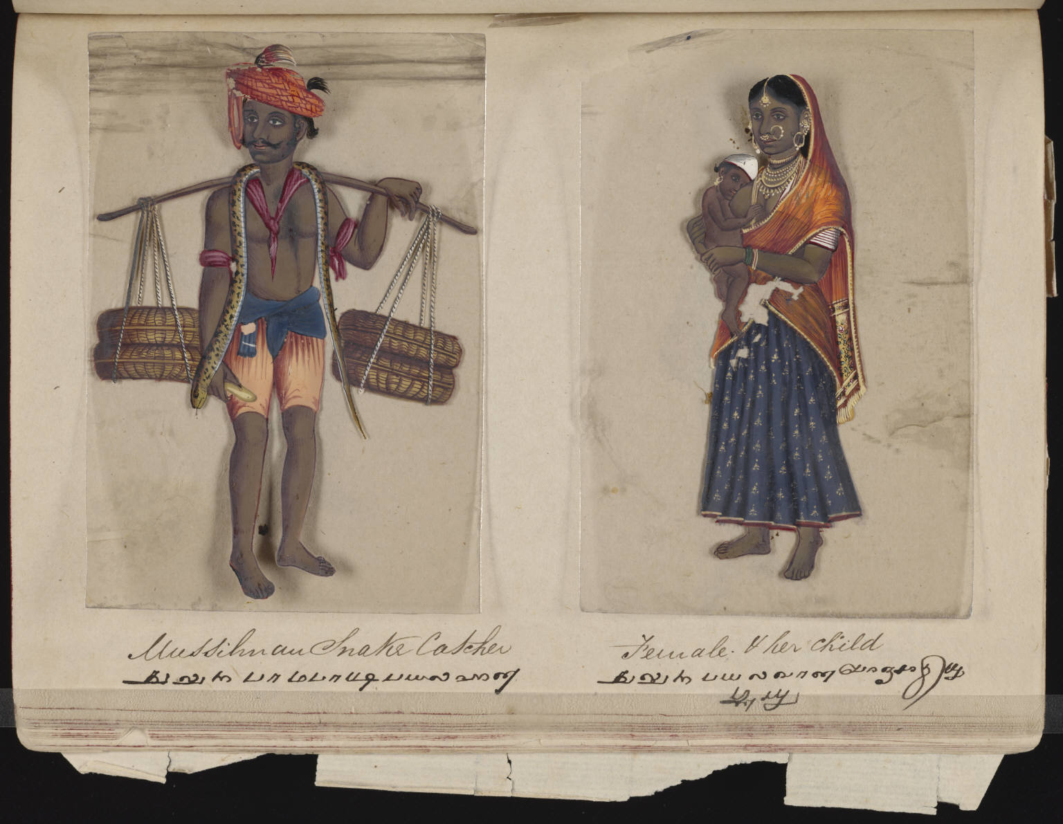 A page from the manuscript Seventy-two Specimens of Castes in India, which consists of 72 full-color hand-painted images of men and women of the various castes and religious and ethnic groups found in Madura, India at that time. Each drawing was made on mica, a transparent, flaky mineral which splits into thin, transparent sheets. As indicated on the presentation page, the album was compiled by the Indian writing master at an English school established by American missionaries in Madura, and given to the Reverend William Twining. The manuscript shows Indian dress and jewelry adornment in the Madura region as they appeared before the onset of Western influences on South Asian dress and style. Each illustrated portrait is captioned in English and in Tamil, and the title page of the work includes English, Tamil, and Telugu.